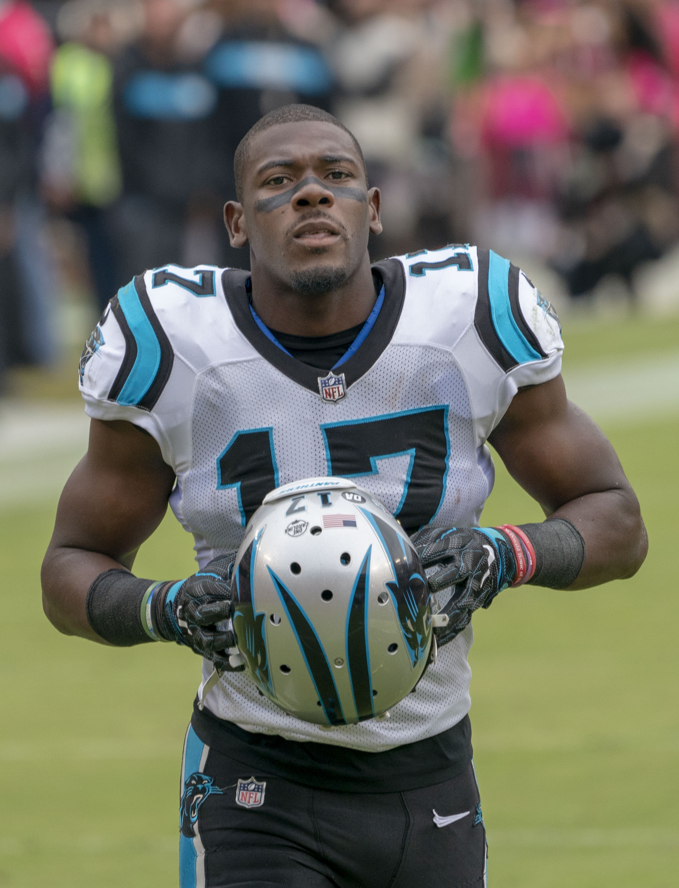 Panthers at Redskins 10/14/18